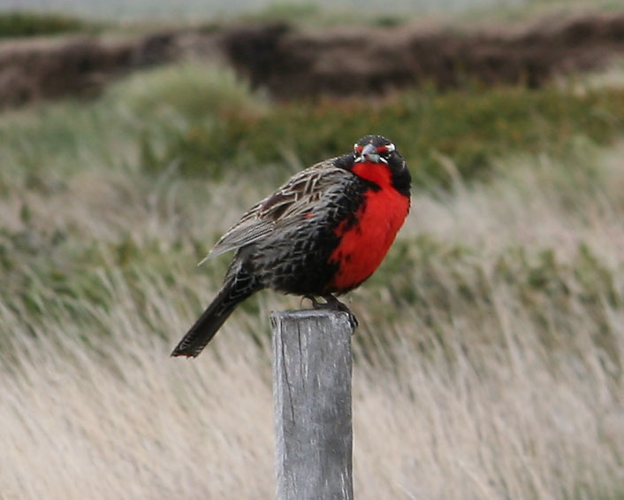 Long-tailed Meadowlark (Sturnella loyca)